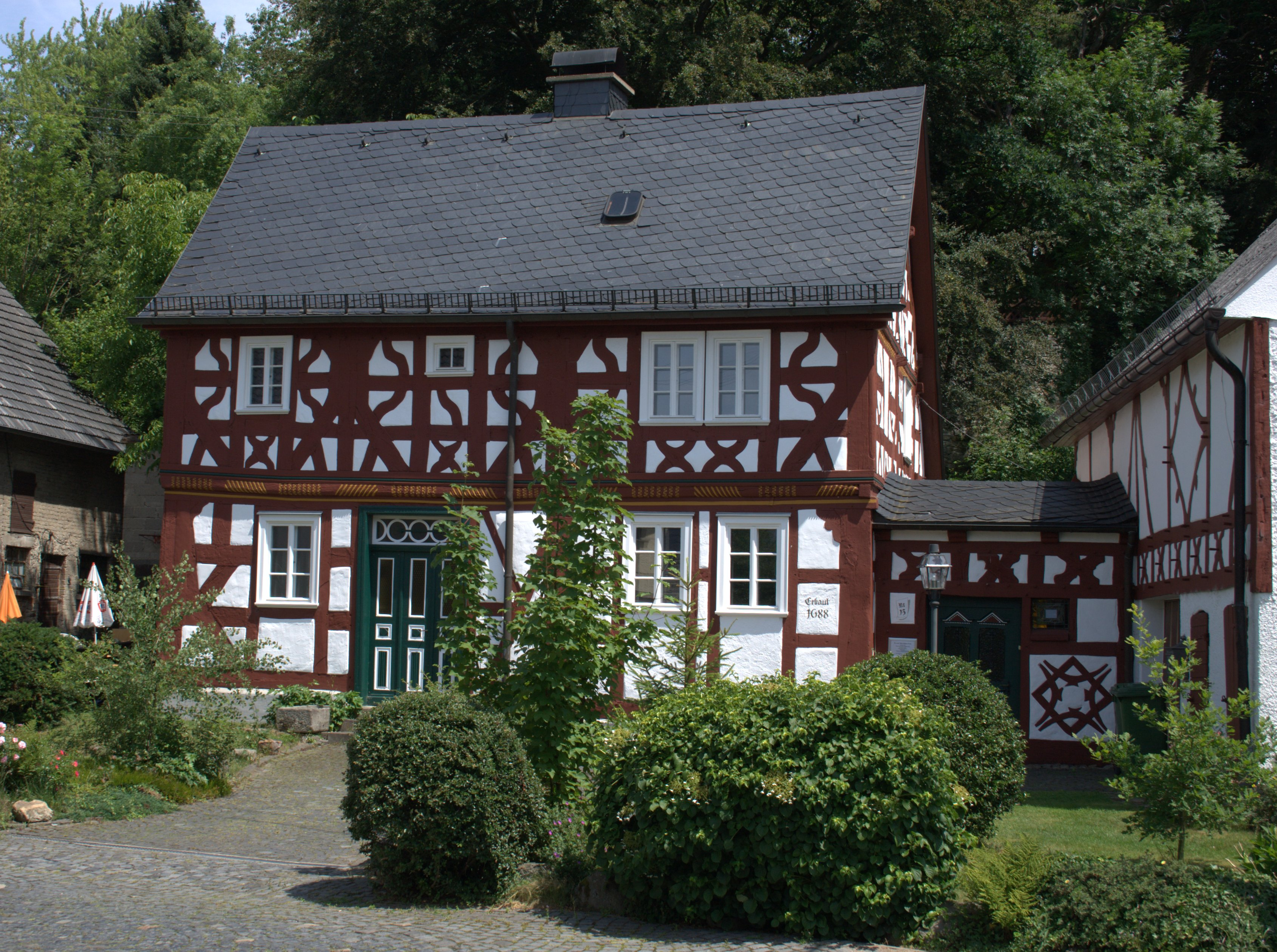 Haus Sahm in Maxsain, Westerwald, Germany. Oldest house in the village, errected in 1688